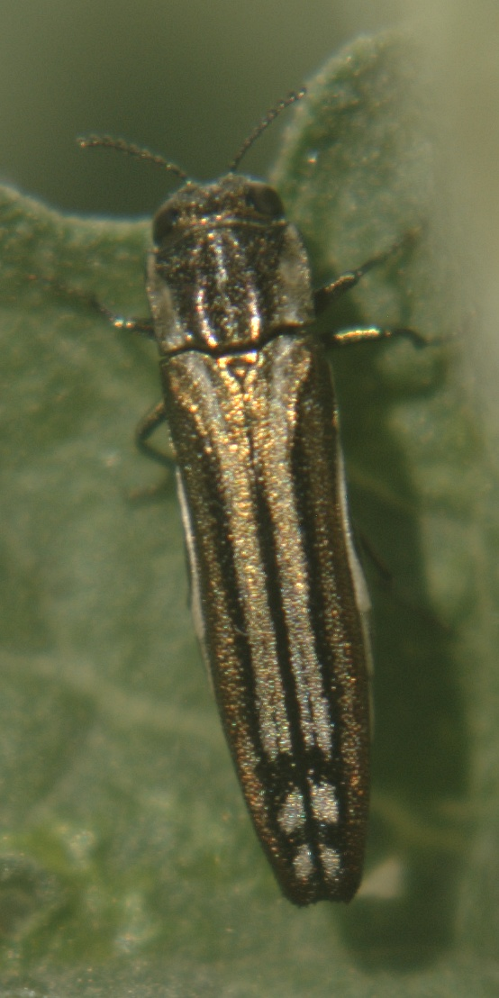 Jewel beetle of the species Agrilus aureus on leaf of Sphaeralcea angustifolia (as they apparently often are), Santa Cruz, New Mexico. Thanks to V. Belov and Kyle Schnepp at for identification.